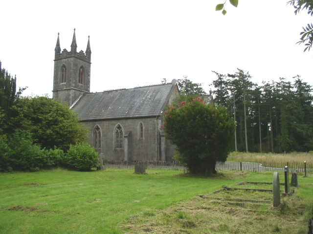 Bective Church Now in use as an artist's studio